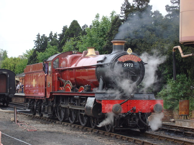 'Hall' Class 4-6-0 No 5972 [in reality named 'Olton Hall'] acting the part of the fictional locomotive "Hogwarts Castle" at a special event at Toddington on the Gloucestershire Warwickshire Railway